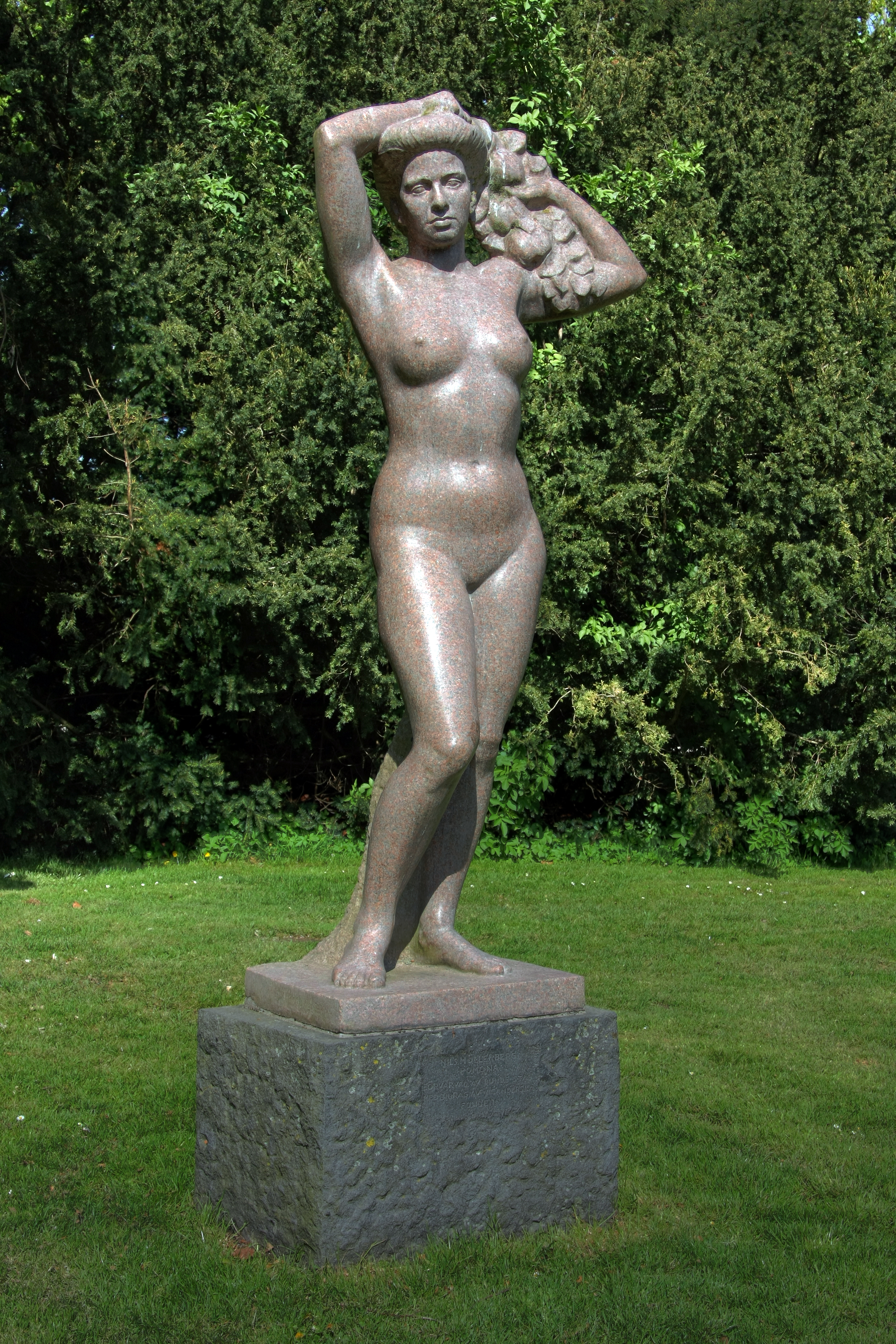 Nils Möllerberg's Pomona in Stadsparken (City Park) in Lund, Sweden